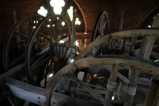 Part of the bell frame in the west tower of St Mary's parish church, Croome D'Abitot, Worcestershire. The tower is not normally open to the public but was open on this day as part of the Heritage Open Day.